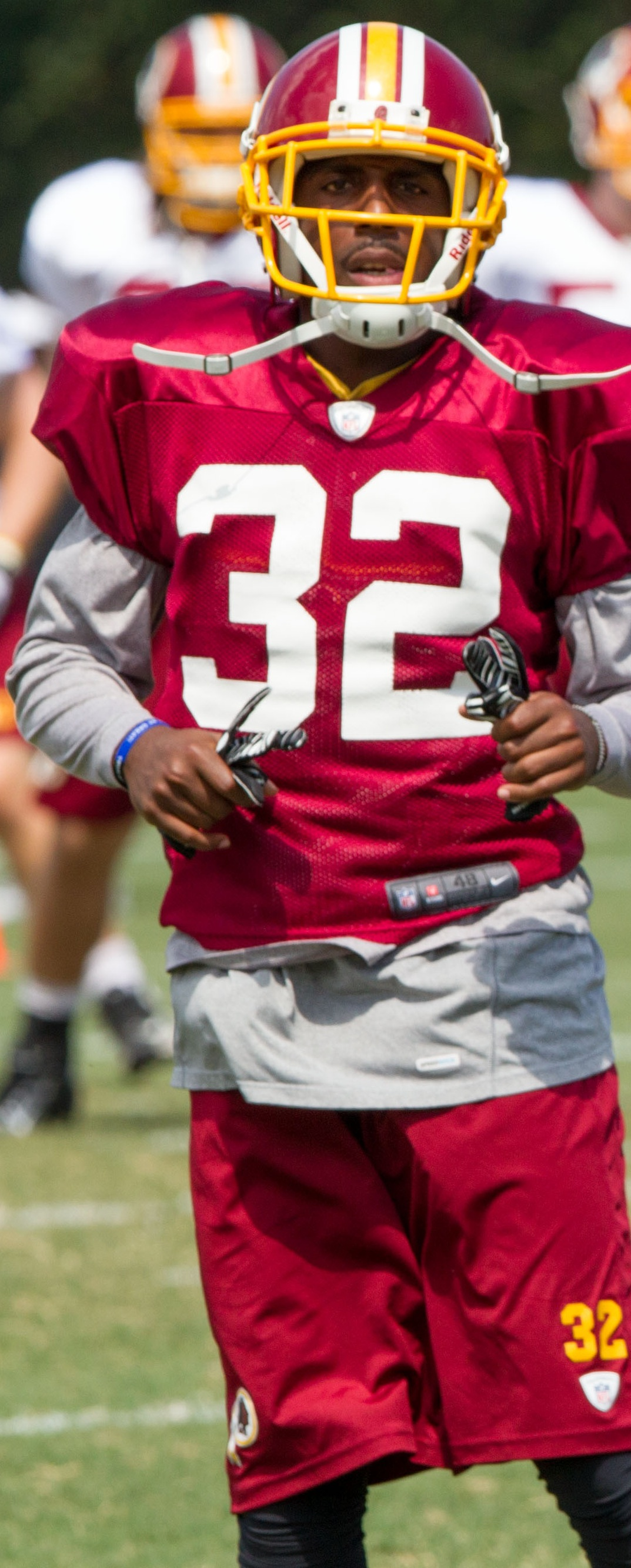 Brandyn Thompson at Washington Redskins Training Camp July 30, 2012